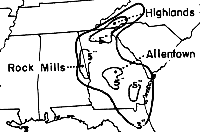 Storm total rainfall from early October 1898 hurricane, prepared by the USACE